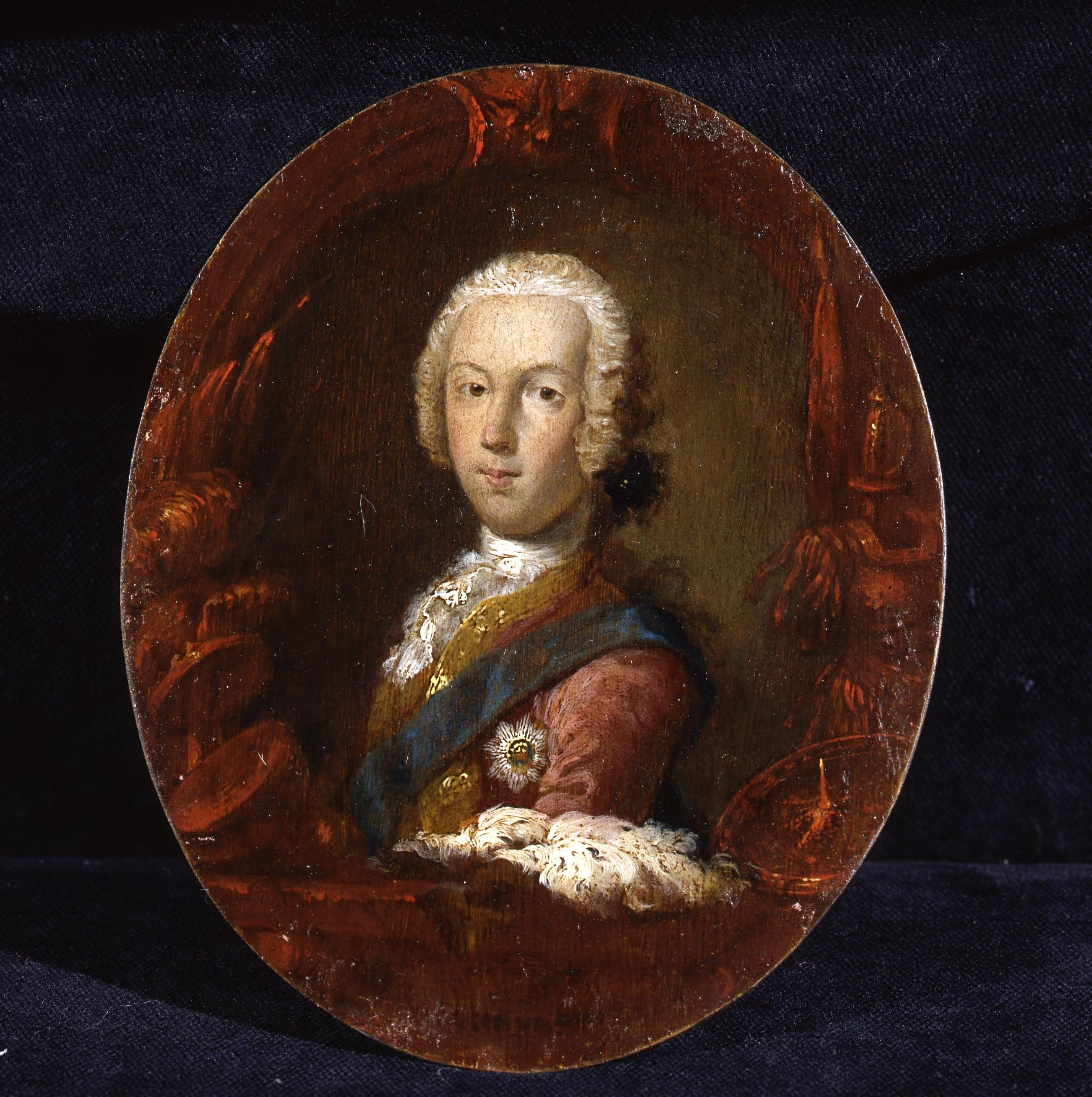 Portrait of Prince Charles Edward Stuart, The Young Pretender, by Robert Strange, after Benjamin West (1740s). Oil on copper, oval 13.9 cm.